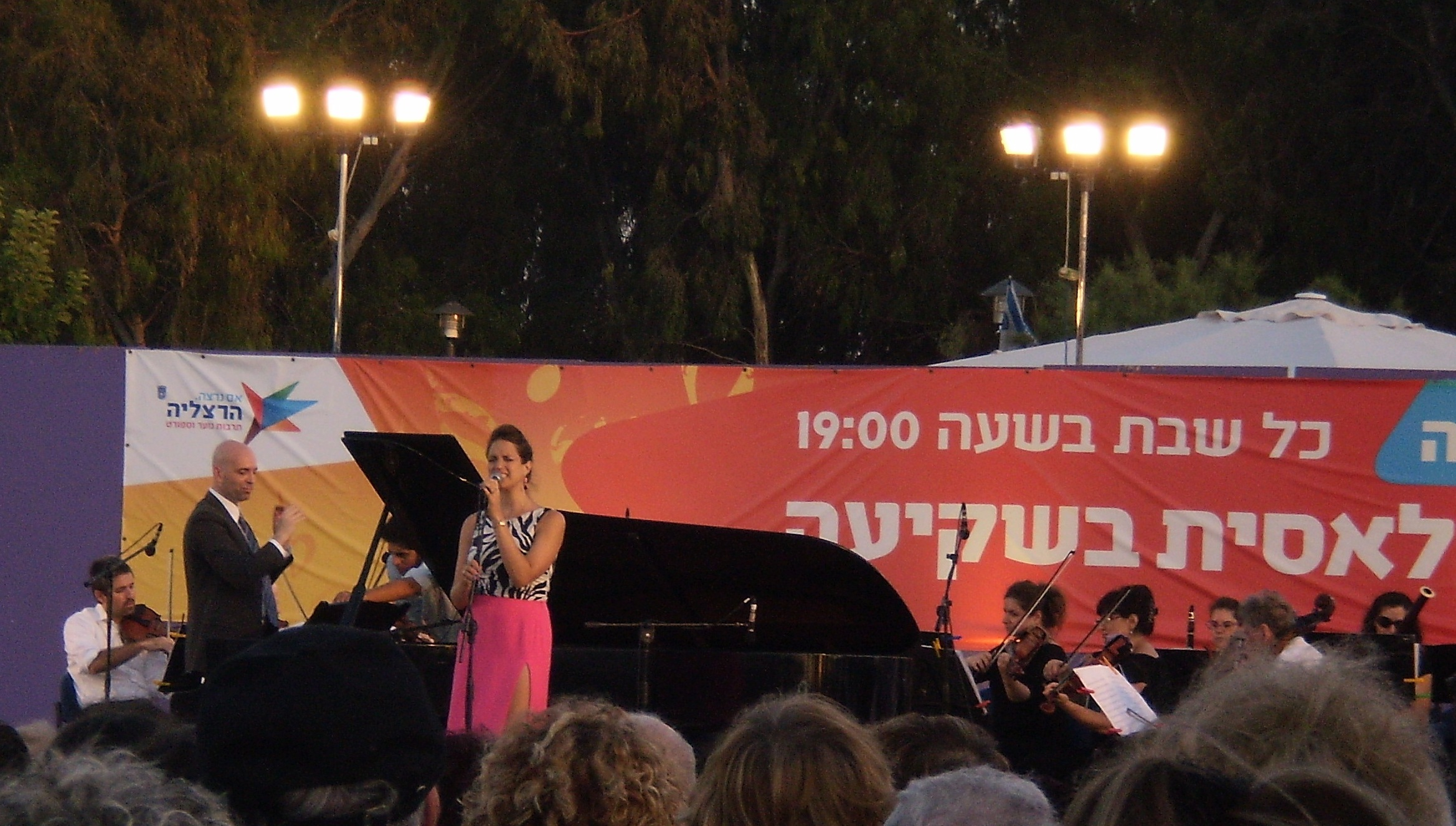 Marina Maximillian Blumin with Symphonet Raanana. Conductor and pianist: Gil Shohat